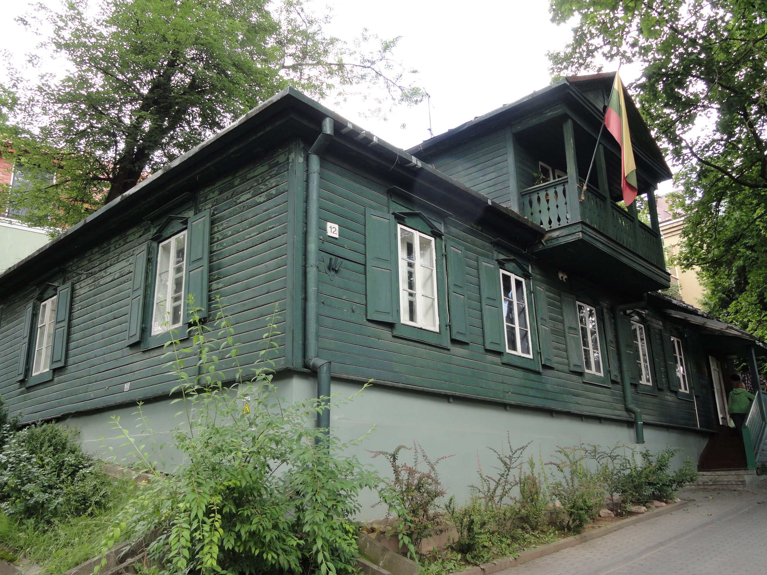 The "Green House": Vilnius Holocaust Museum